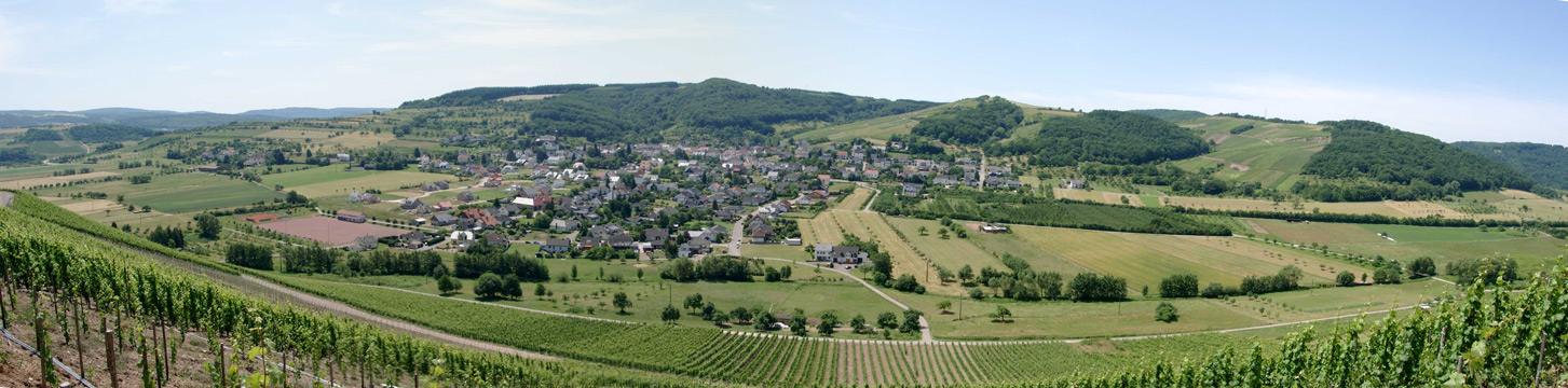 View from the "Ayler Kupp" at the village Ayl, Germany Location: Ayl (near Trier), Germany Source: self photographed and stitched (out of 8 photos) Camera: Casio QV-5700 Photographer: jot